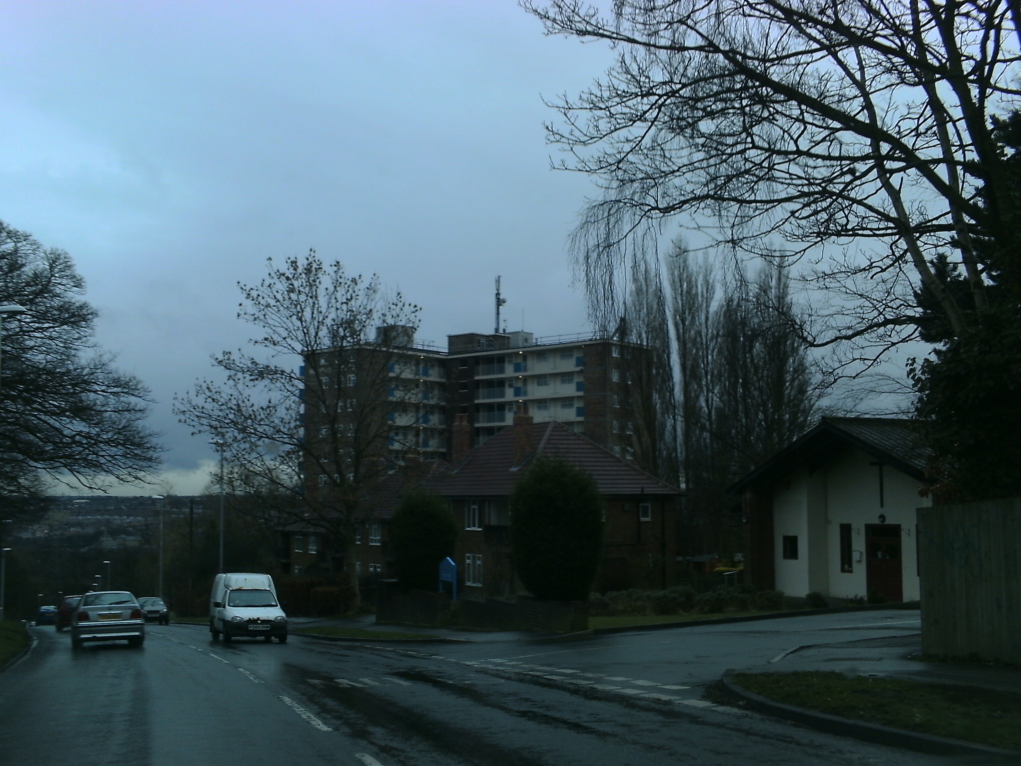 Norman Towers, West Park, Leeds, West Yorkshire